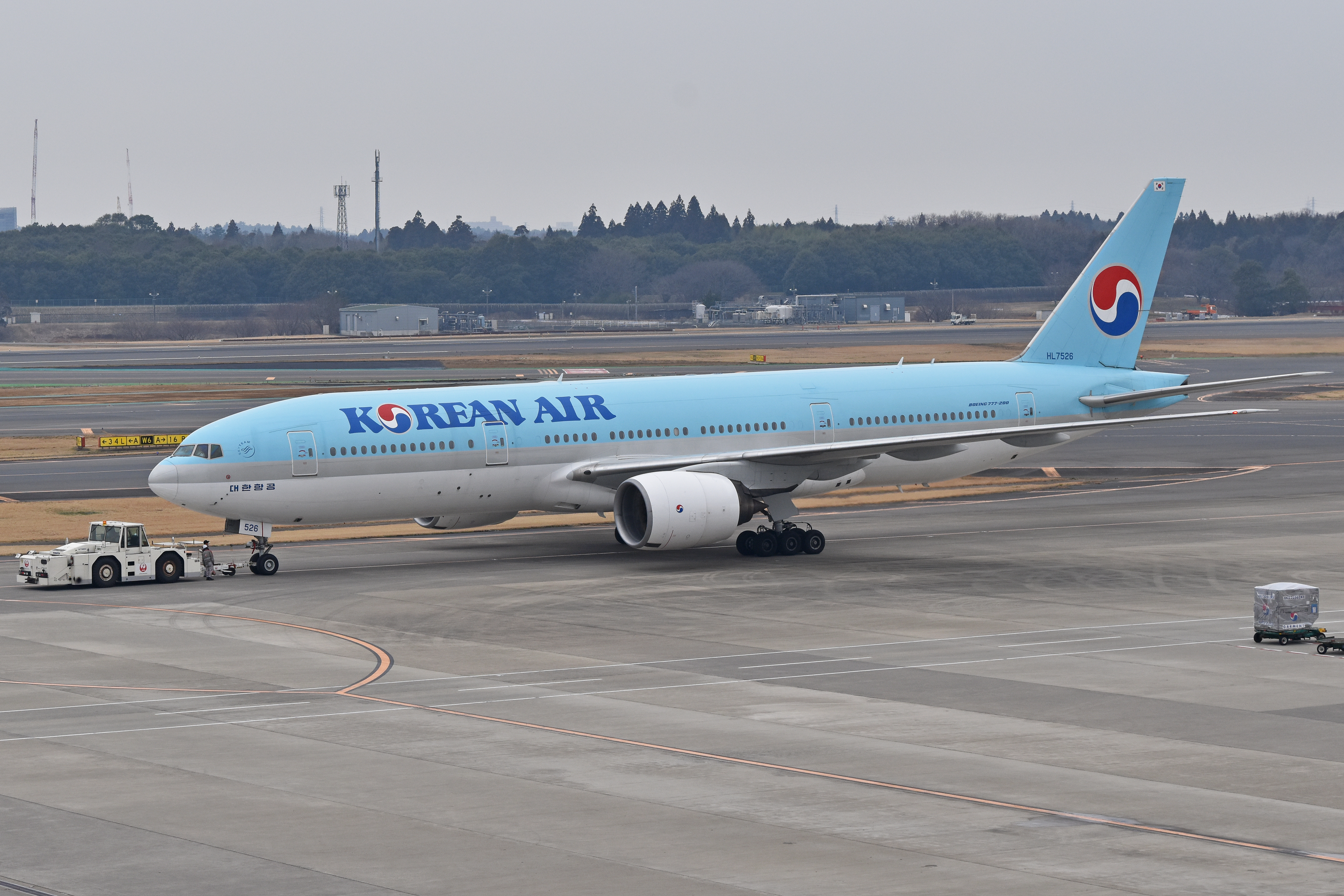 c/n 27947, l/n 148 Built 1998 Pushing back to depart on flight KE705 / KAL705 from Seoul Incheon Seen from Terminal 1 viewing terrace. Narita International Airport Tokyo, Japan 16th March 2019